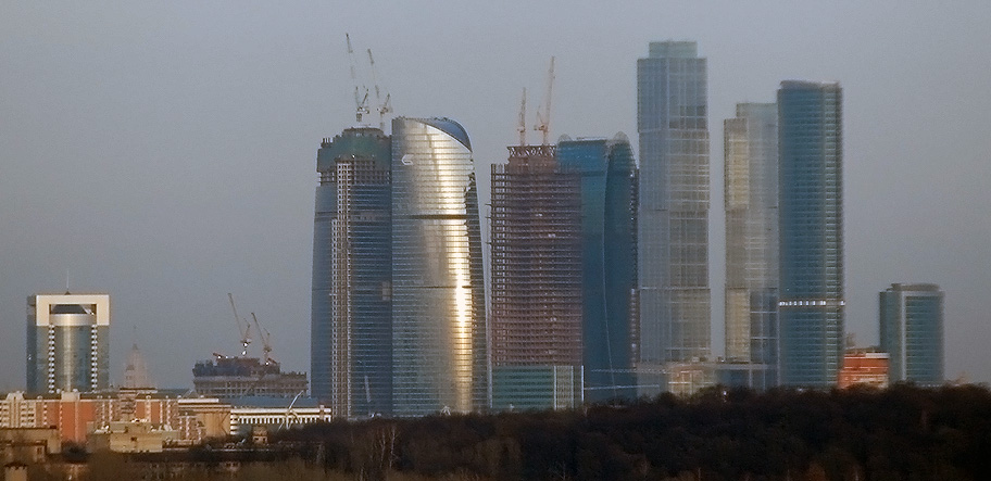 Moscow-City 02-04-2010 from Krylatskiye Kholmy